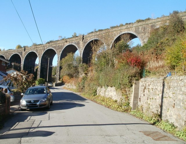 Garndiffaith Viaduct crosses Viaduct Road